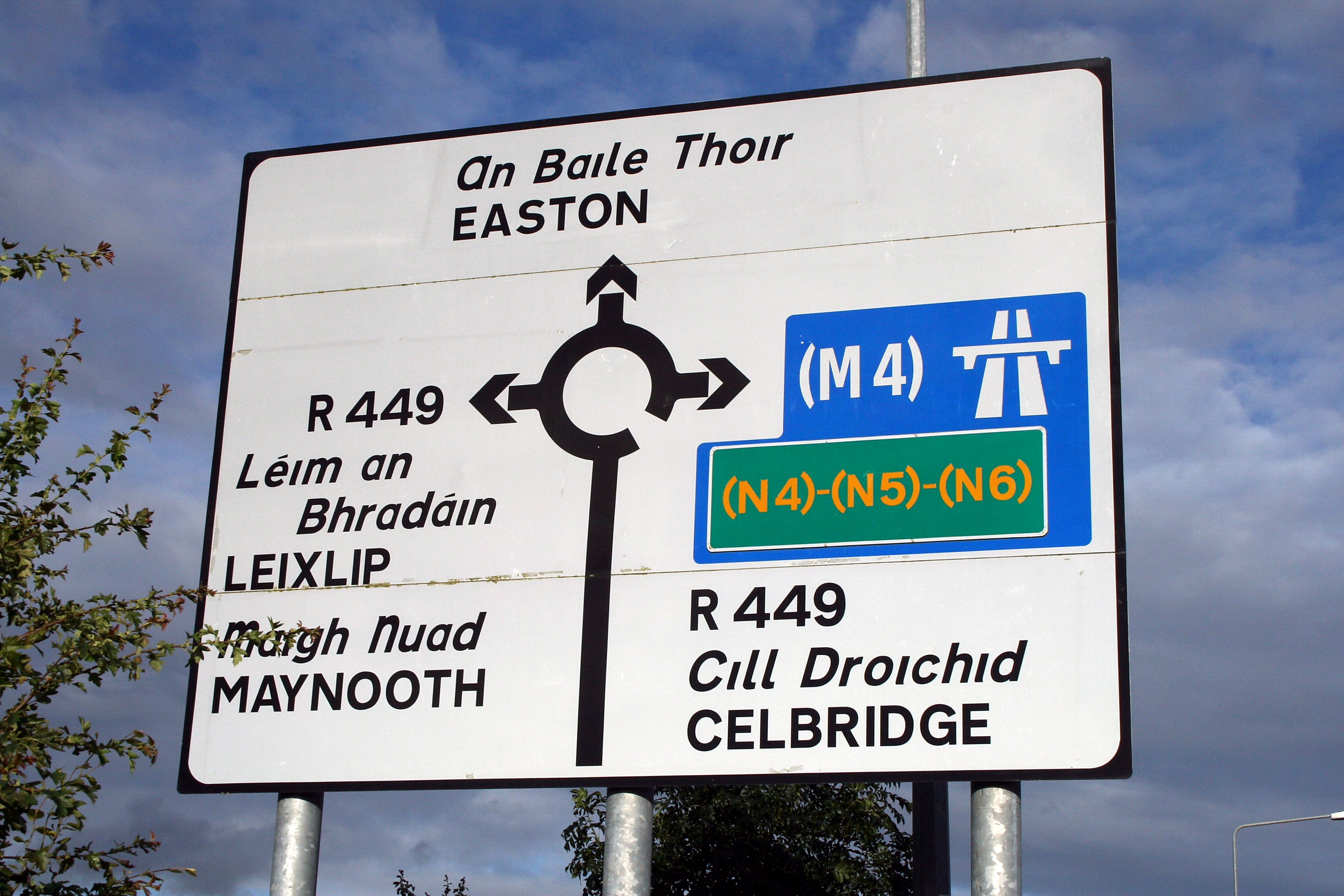 Sign near roundabout on the R449 near Leixlip, County Kildare